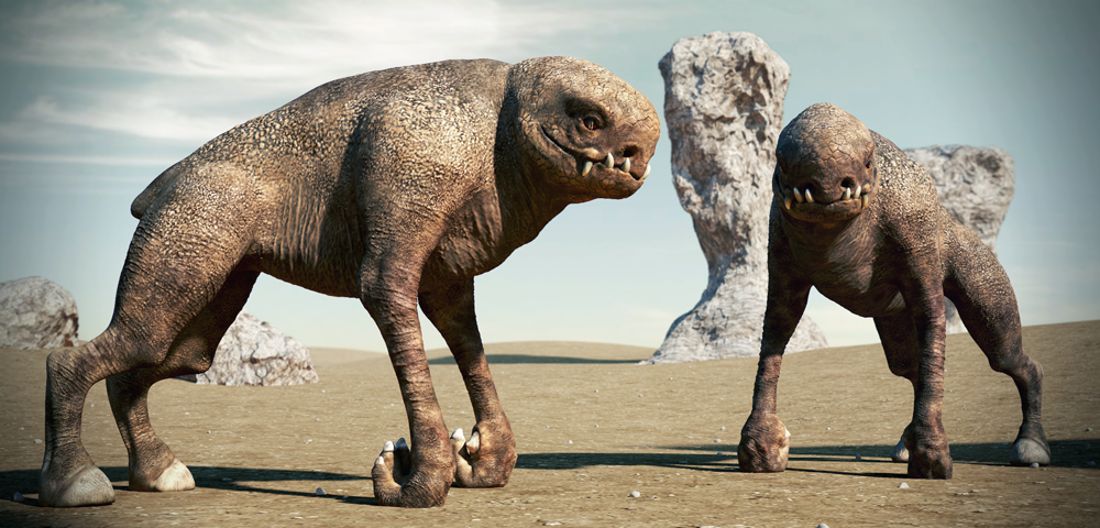 polvorón y anisete License on Flickr (2011-01-19): CC-BY-2.0 Flickr tags: sci-fi, desert, creature, zbrush